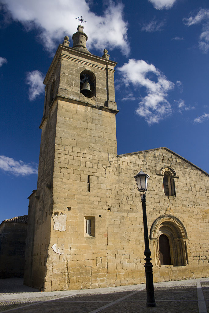 Tirgo's church, La Rioja, Spain.